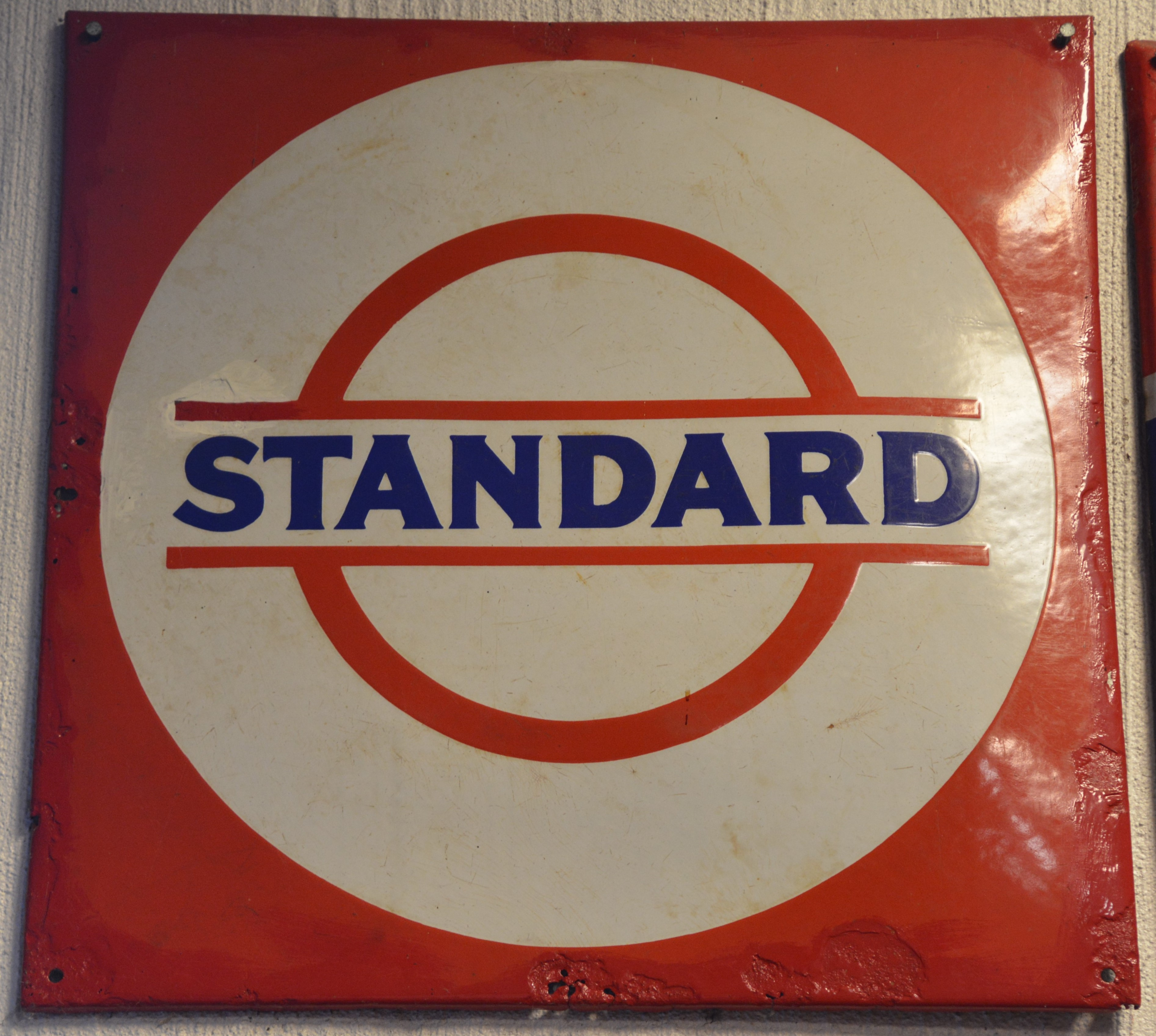 Standard Oil Sign